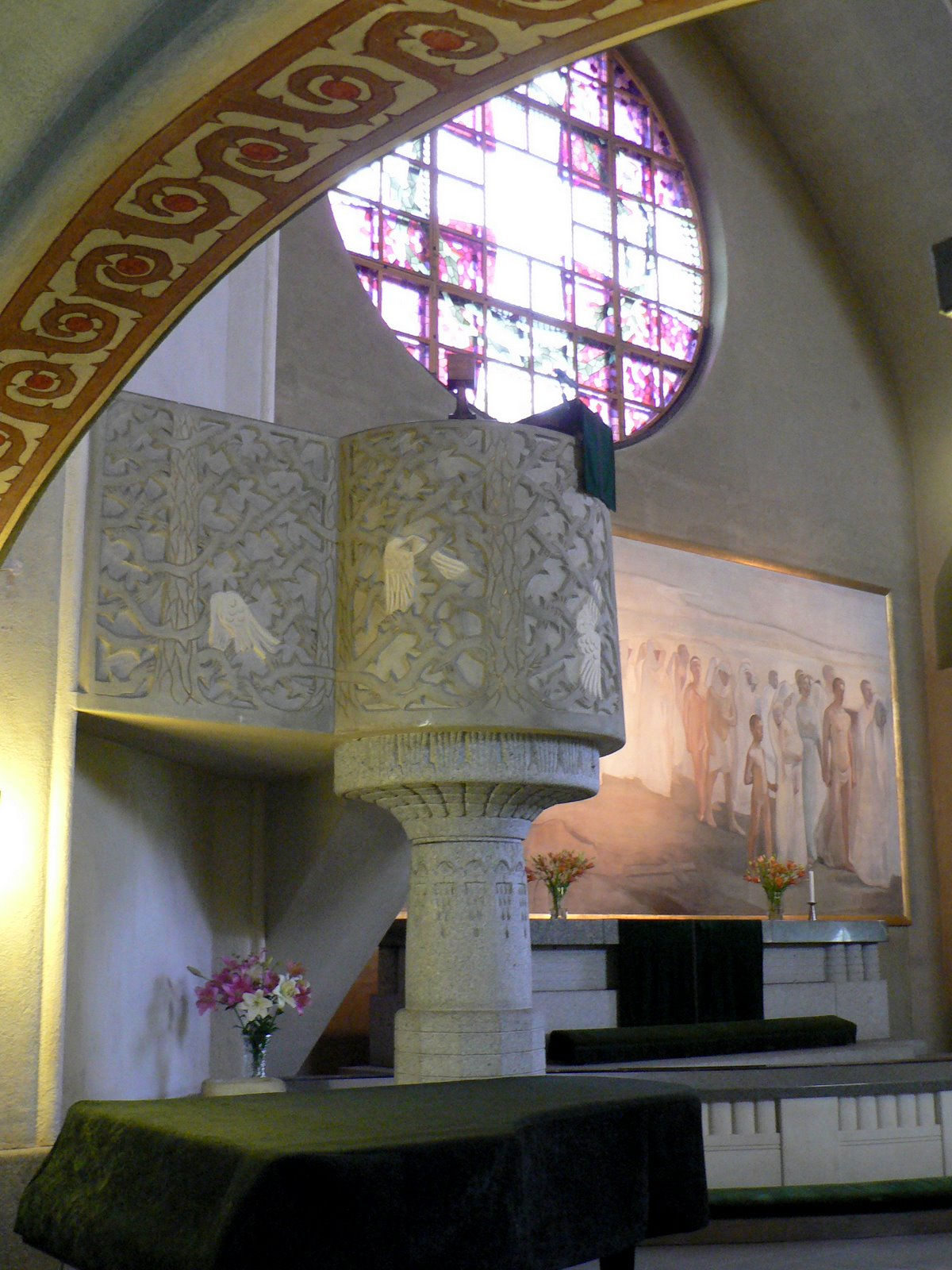 Pulpit of Tampere Cathedral in Tampere, Finland